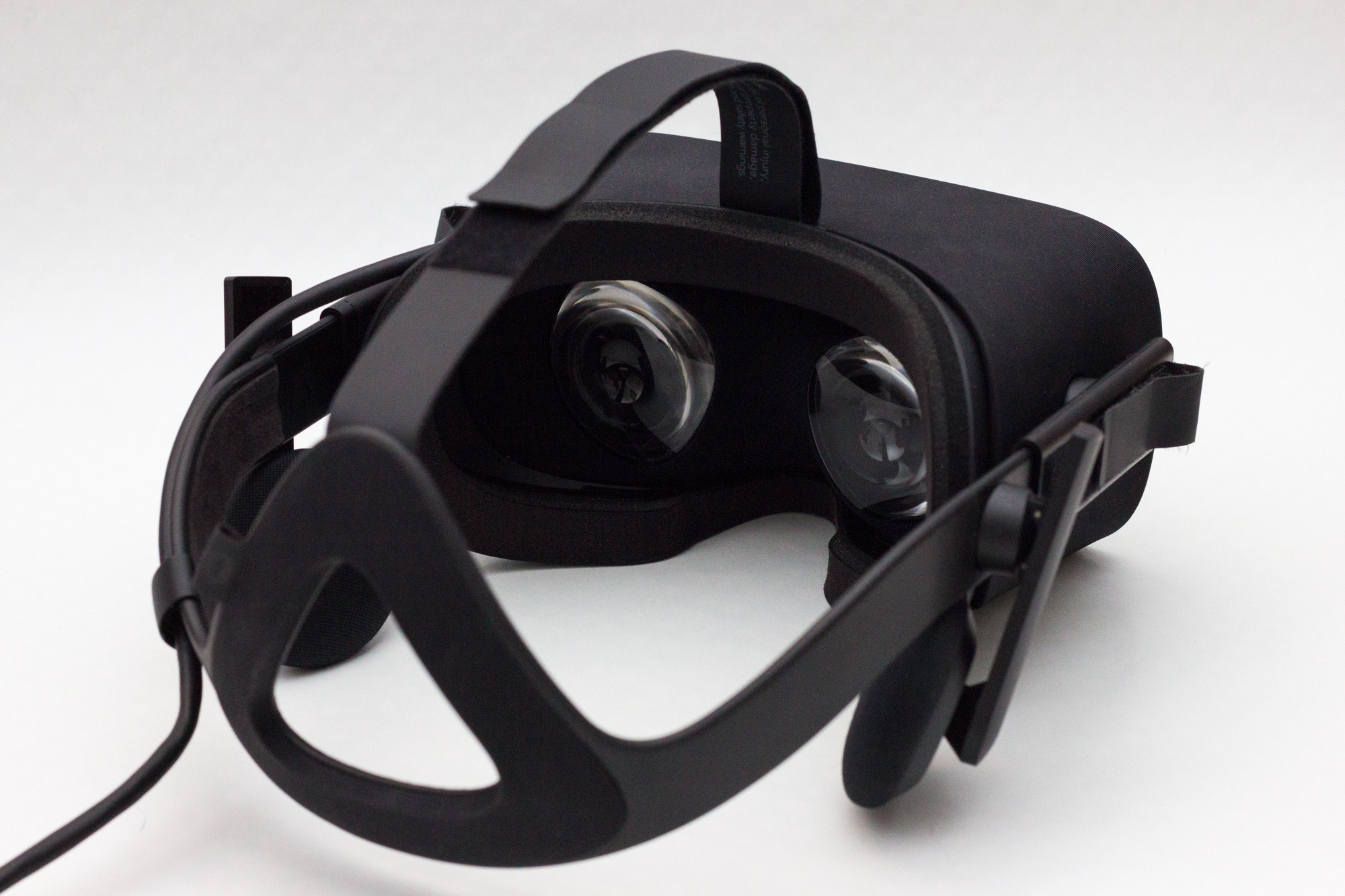 Oculus Rift CV1 from the back.